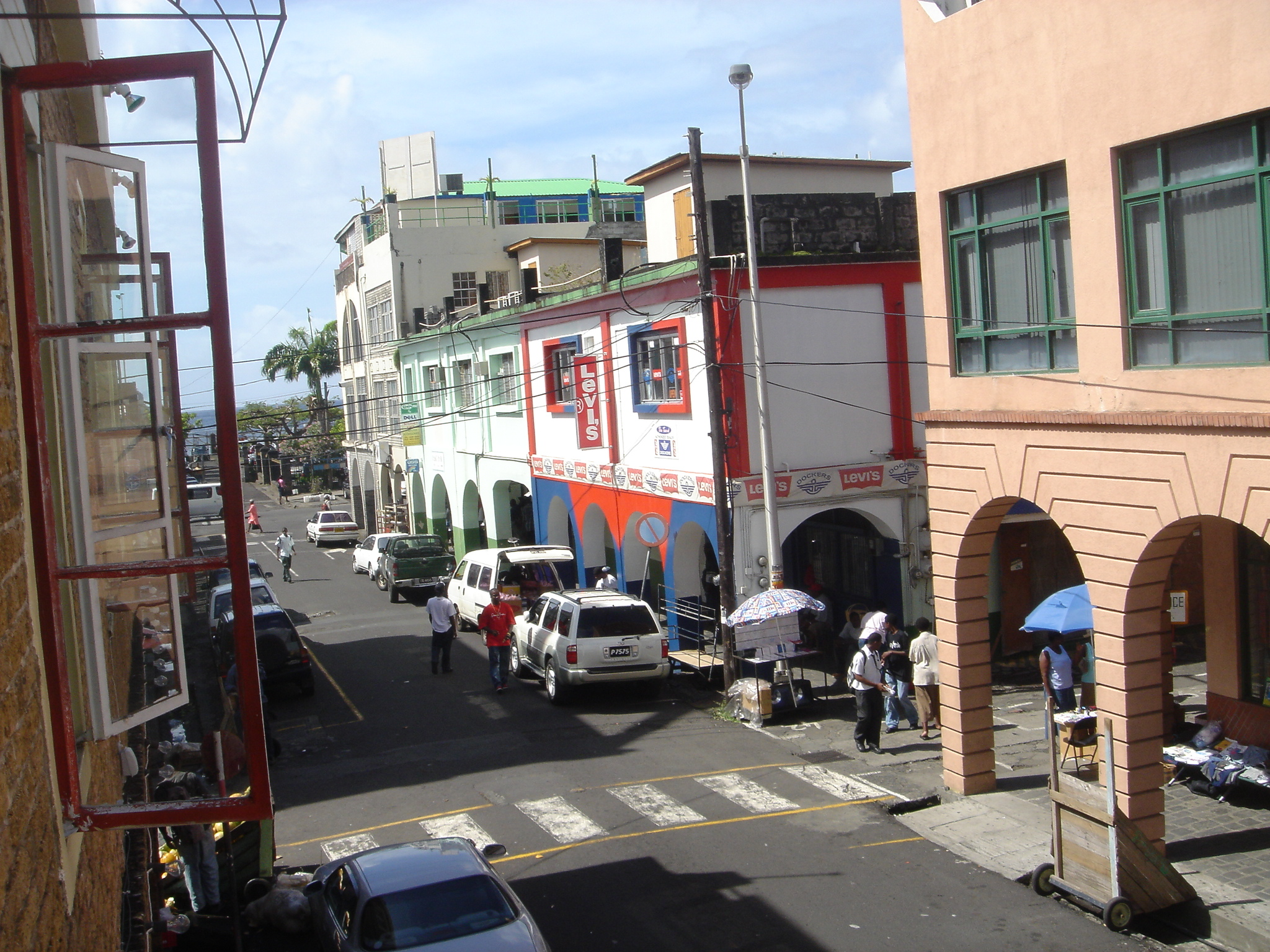 A trip to St. Vincent and the Grenadines in the Caribbean in 2006. Kingstown, Saint Vincent, Saint Vincent and the Grenadines.